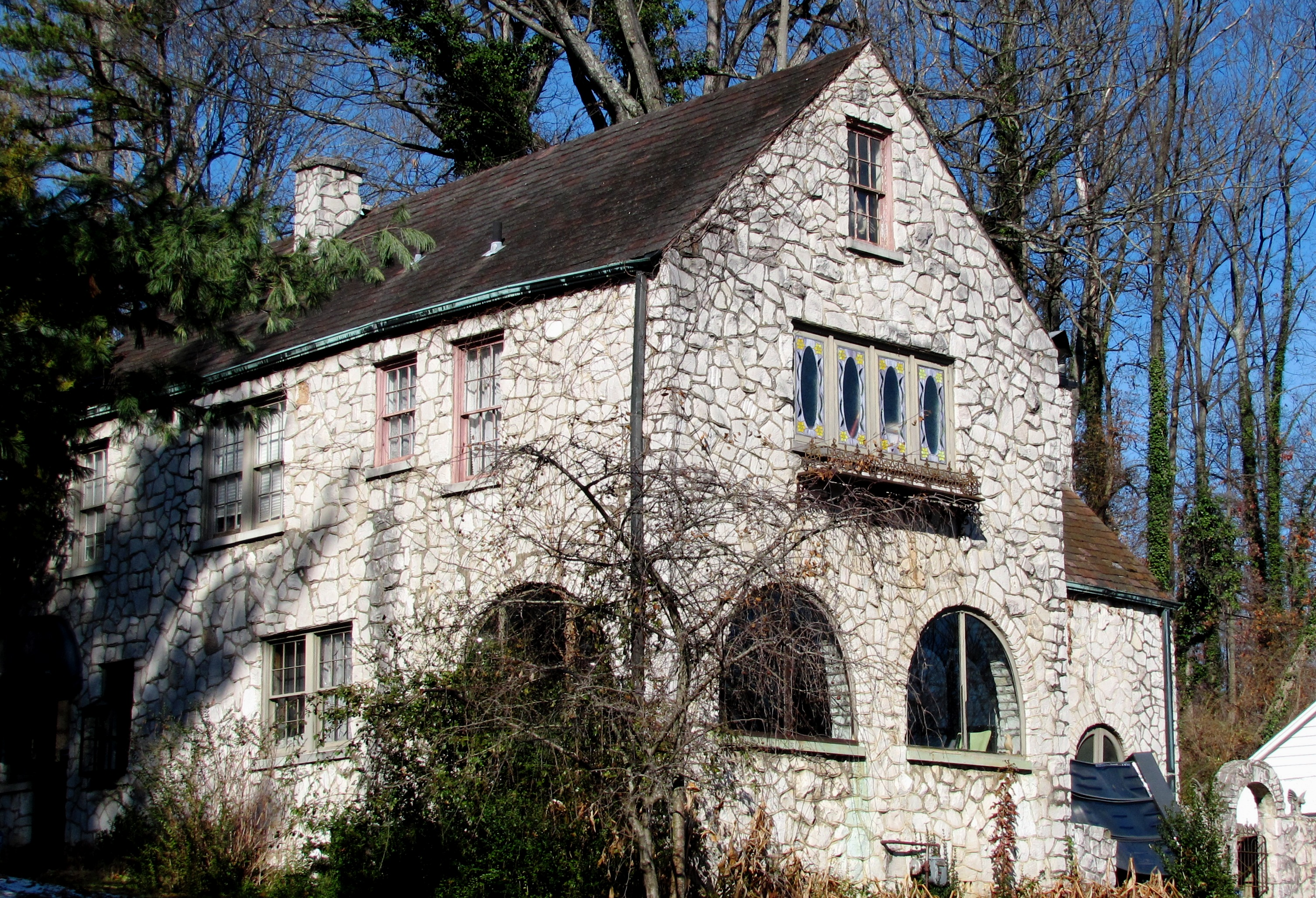 House at 1006 N. Mary Street in the Chilhowee Park neighborhood of Knoxville, Tennessee, USA. This house was built circa 1925.